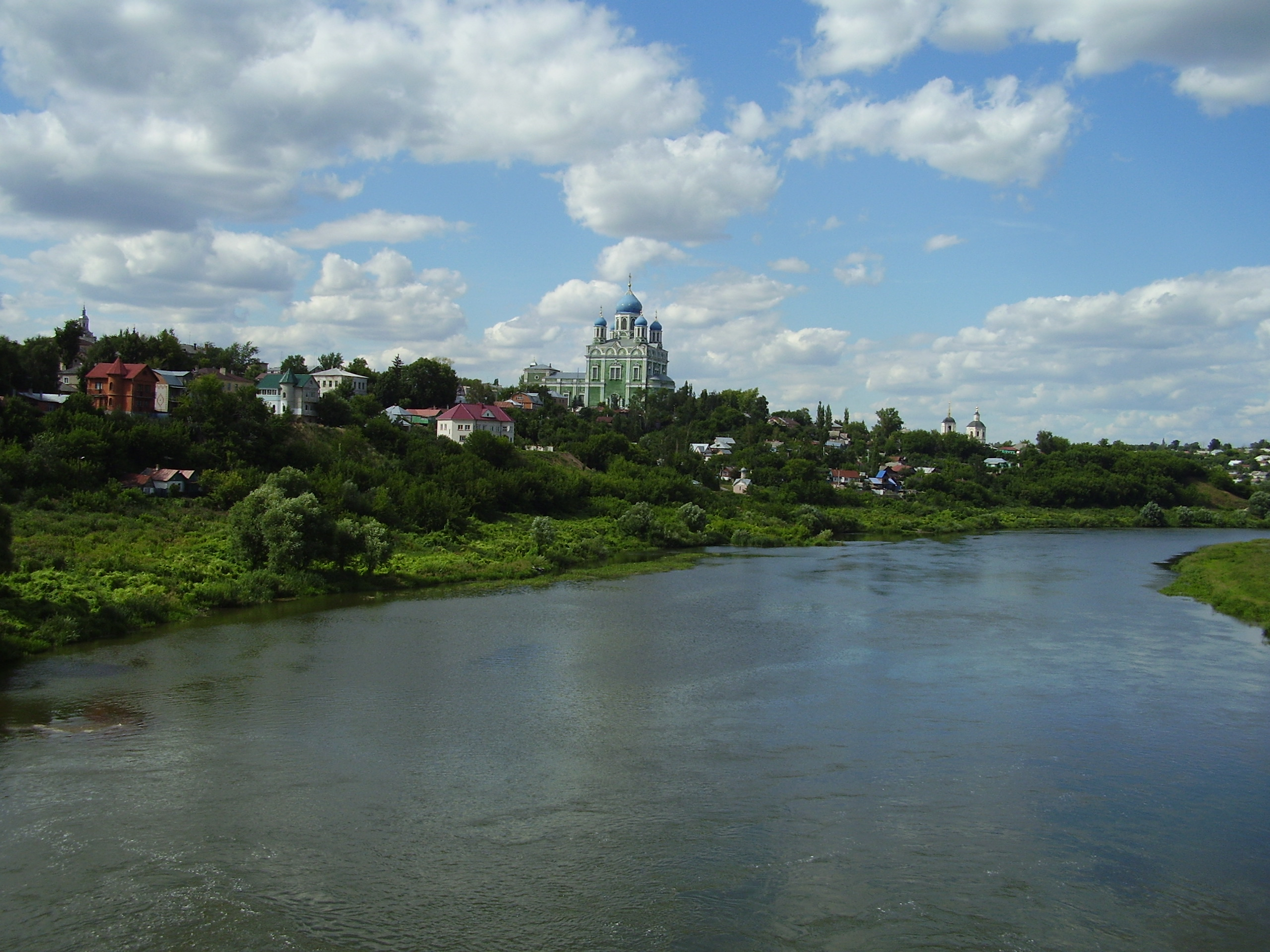 Yelets, seen from across the Sosna River.